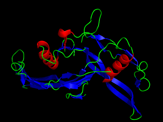 Structure of activin dimer. From 2ARV.pdb. Created with PyMol.